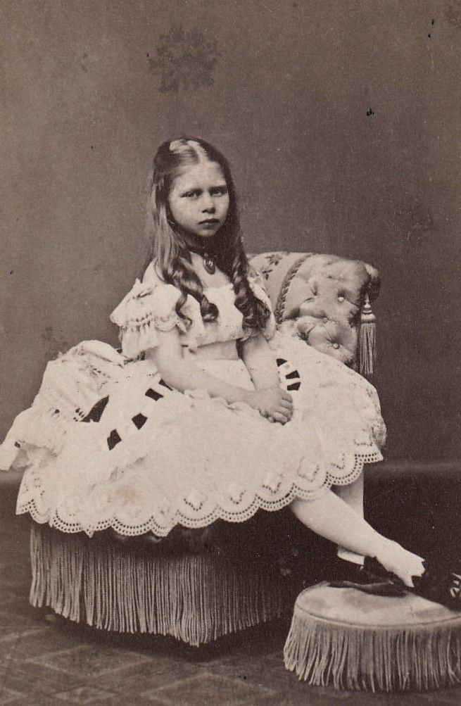 Princess Victoria of Prussia